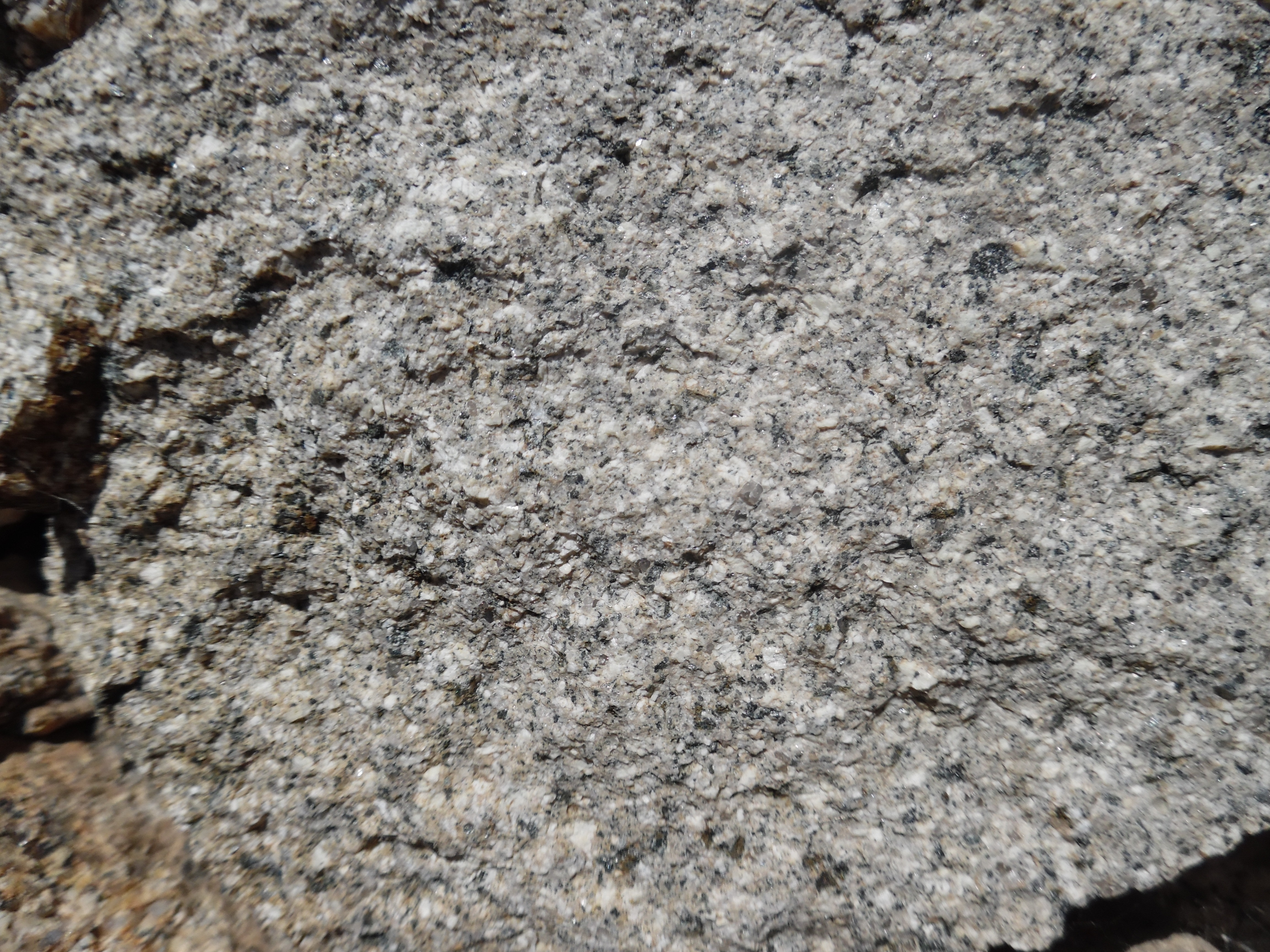 Fine-grained facies of the Saint-Mathieu Leucogranite